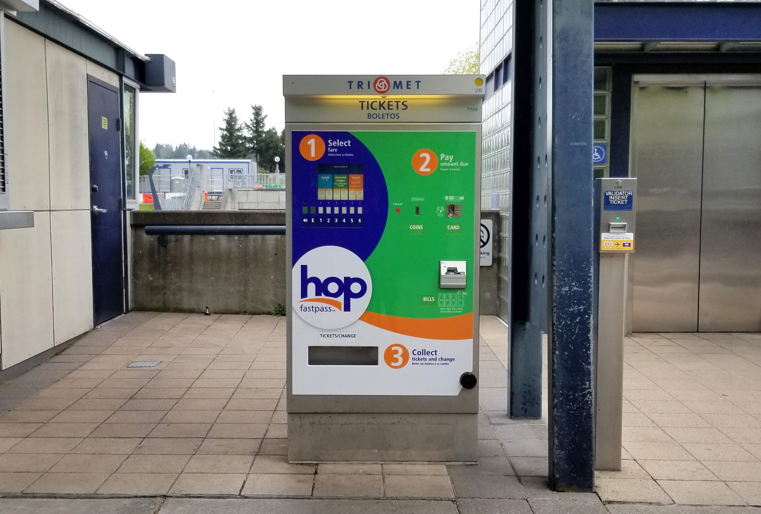 A TriMet ticket vending machine at Sunset Transit Center updated with Hop Fastpass branding. A ticket validator next to it displays an advertisement encouraging riders to switch from paper tickets to the new fare system.